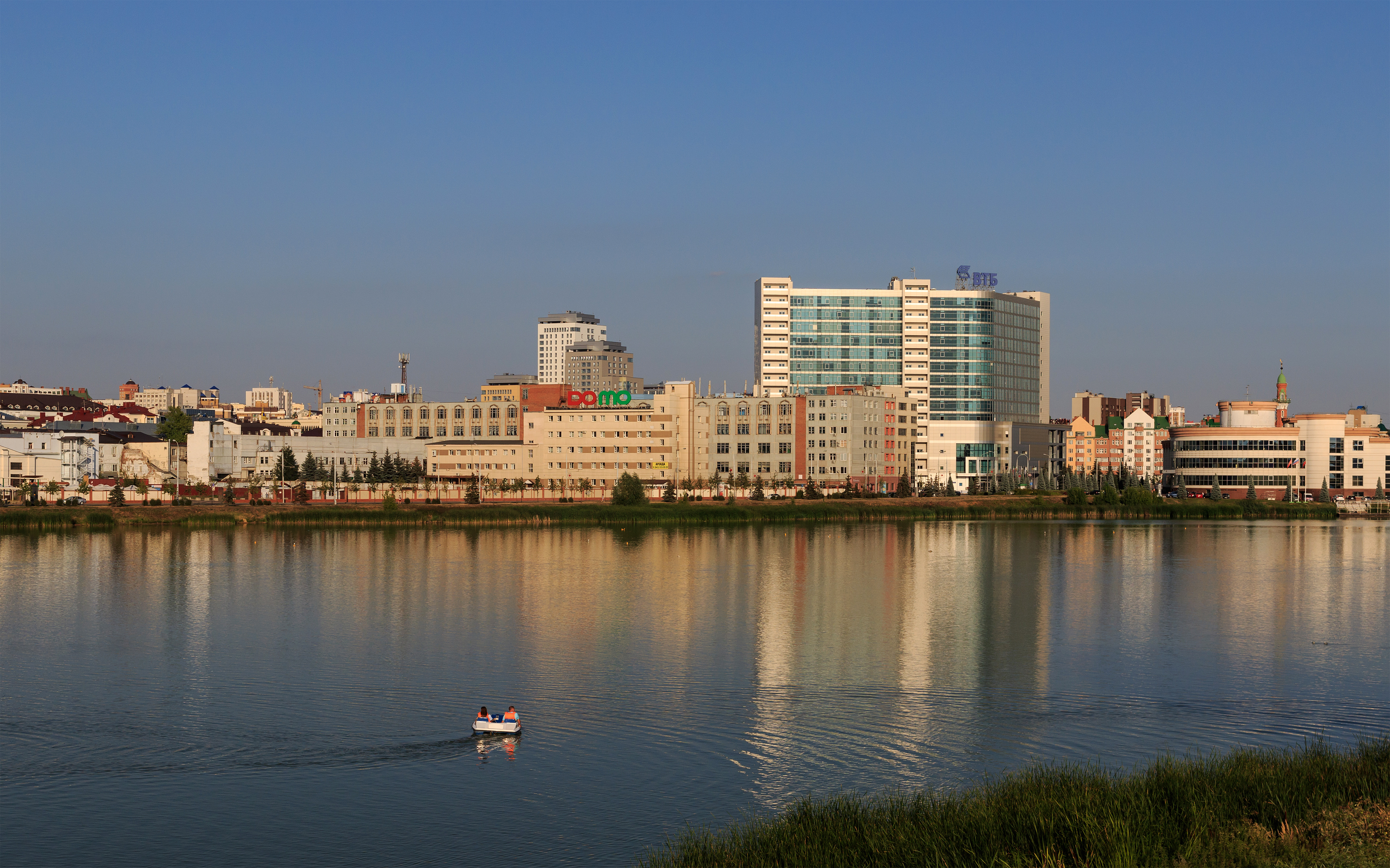 Cityscape to the east of Lower Qaban Lake in Kazan, Russia